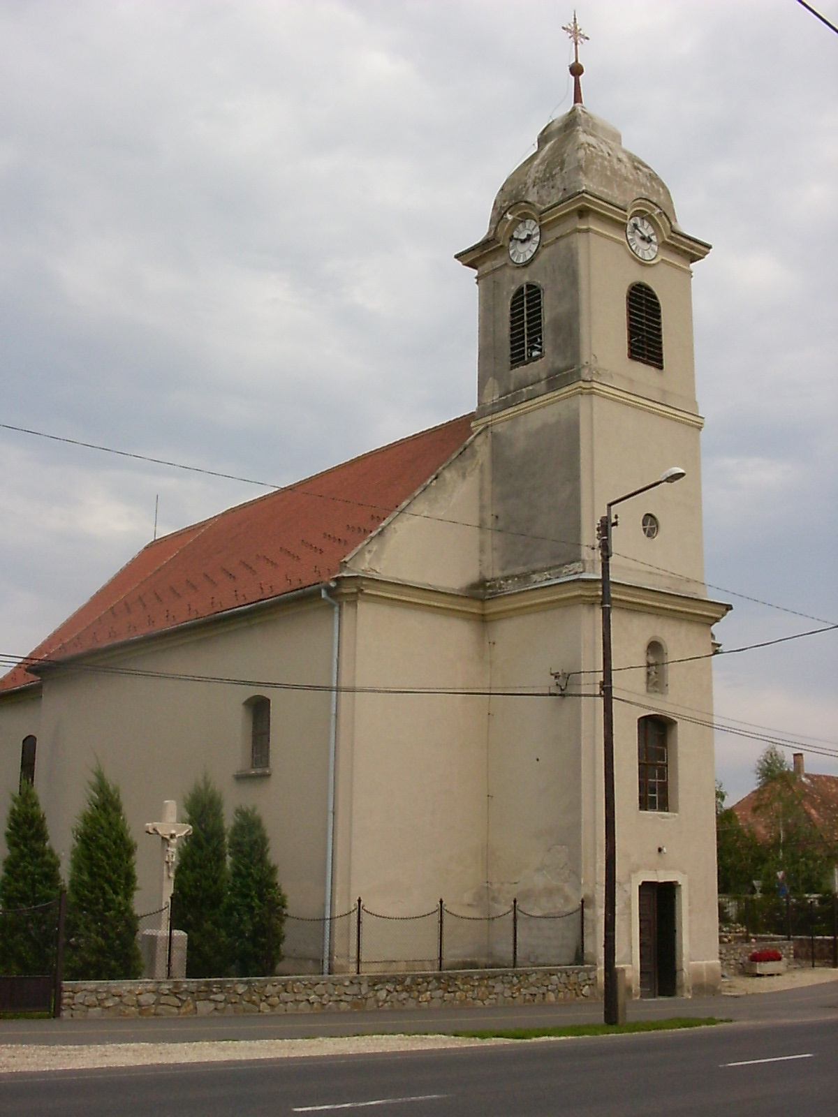 Sopronkövesd, roman catholic church This is a photo of a monument in Hungary, Identifier: 5110